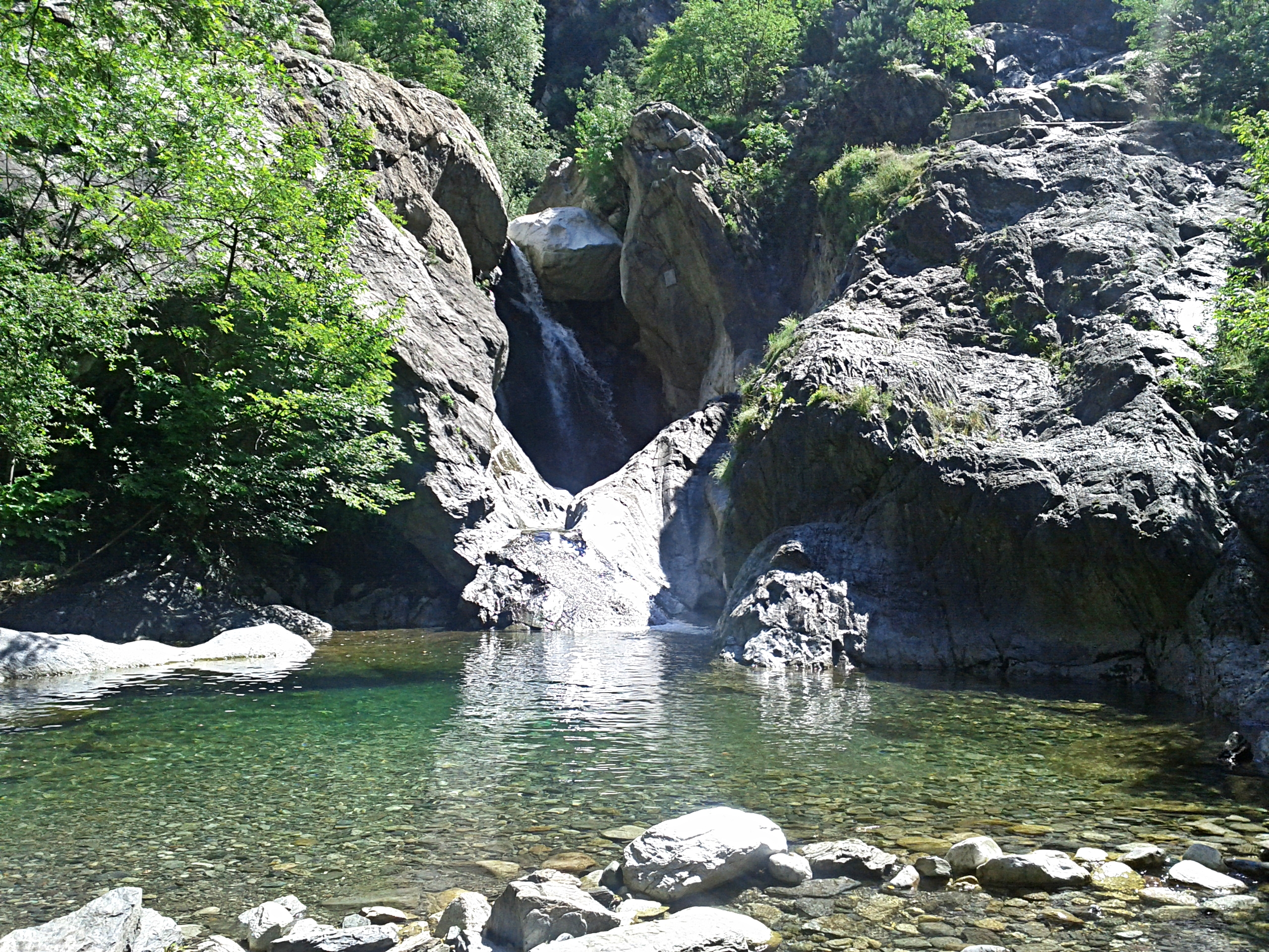 Waterfall "Suchurum", Karlovo